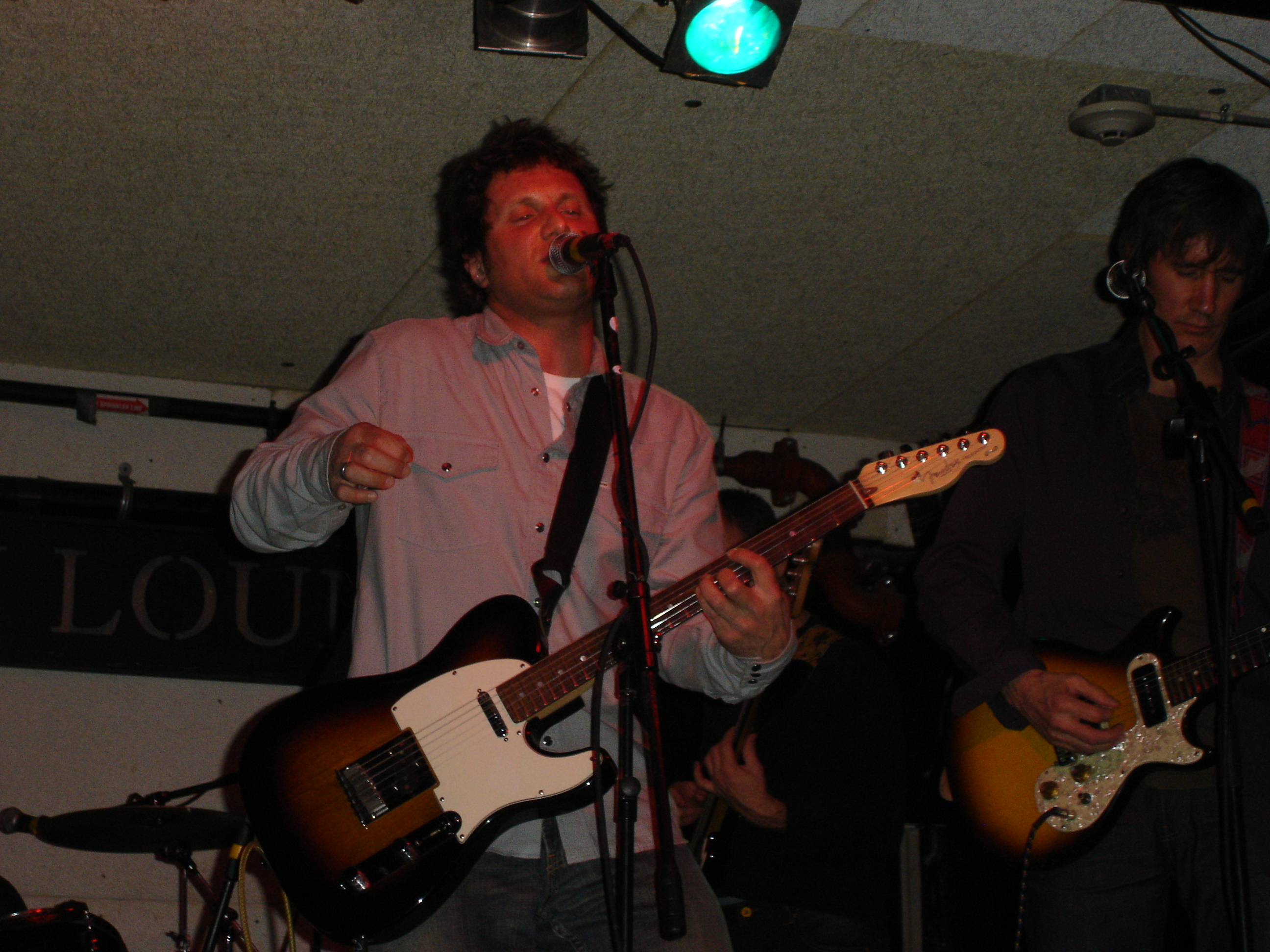 Peter Baldrachi Live Abbey Lounge March 2008